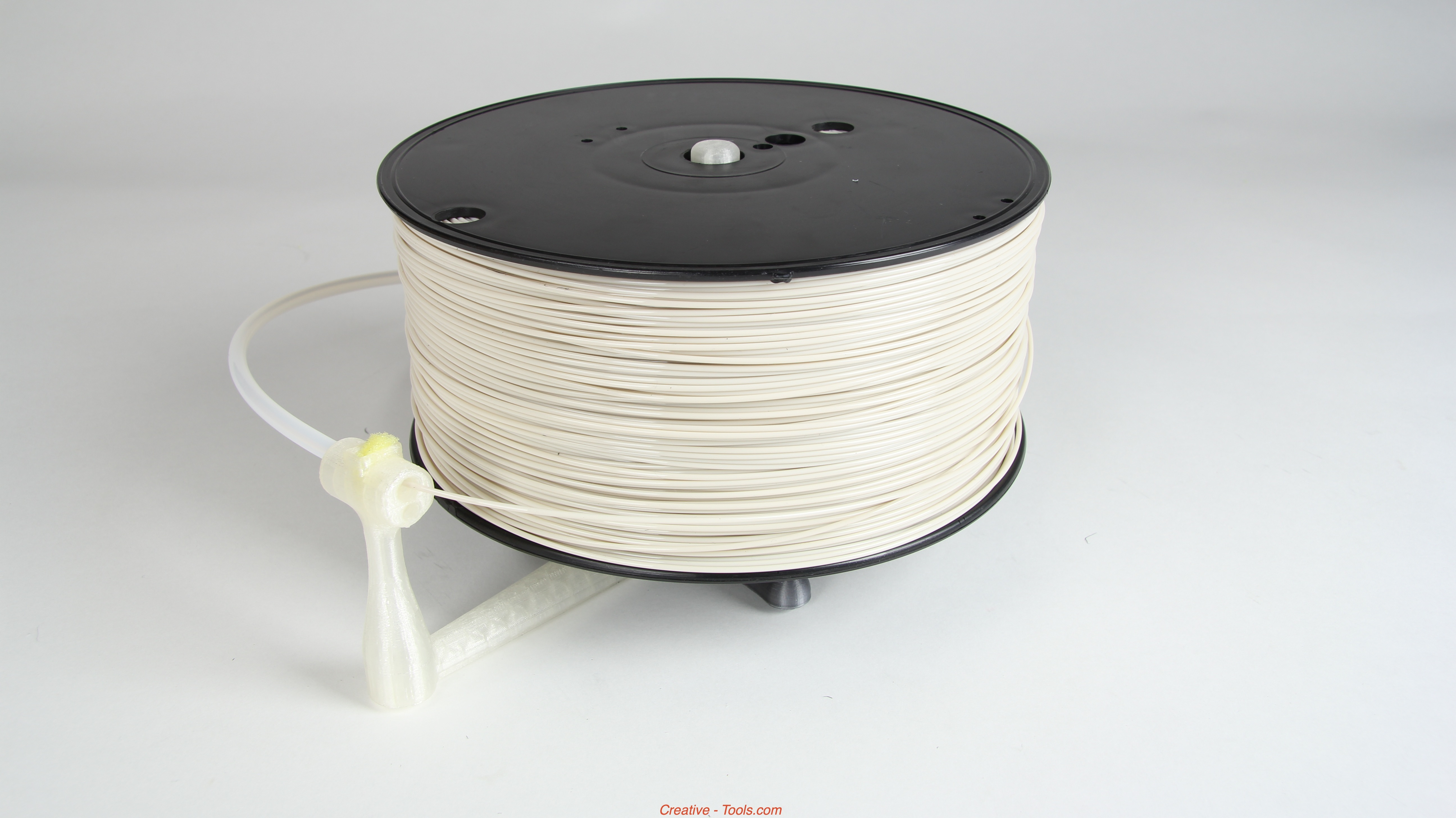 Universal stand-alone filament spool holder (Fully 3D-printable) v10